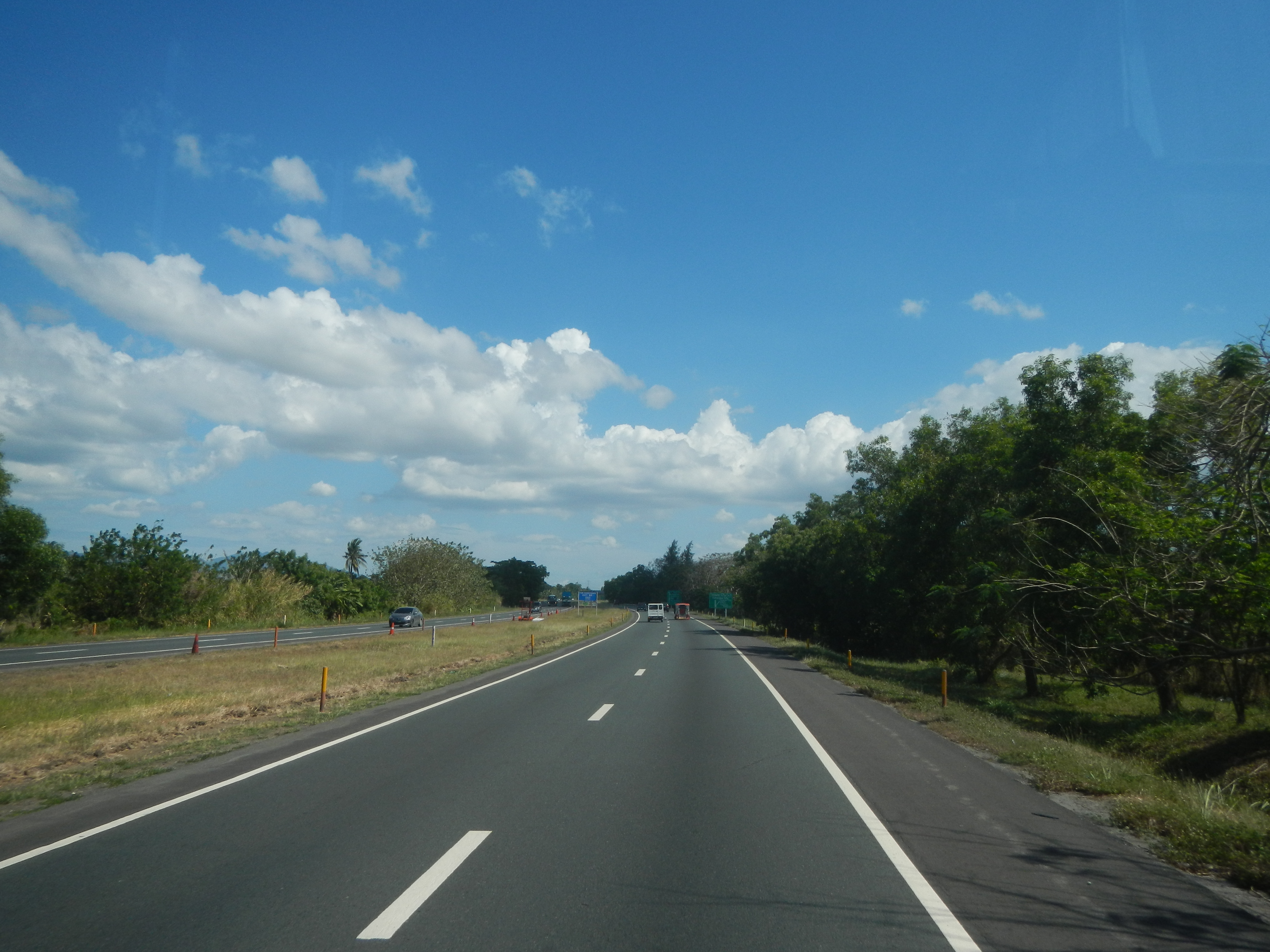 Southern Tagalog Arterial Road (Santo Tomas, Batangas - Batangas City) South Luzon Expressway Skyway (Metro Manila) Southern Tagalog Arterial Road from Santo Tomas, Batangas STAR Tollway 14°7'31"N 121°8'16"E to Batangas City near Diversion Road Barangays Alangilan 13°47'3"N 121°4'24"E Kumintang Ibaba - Kumintang Ilaya 13°46'5"N 121°4'9"E Poblacion Batangas City (Note: Judge Florentino Floro, the owner, to repeat, Donor Florentino Floro of all these photos hereby donate gratuitously, freely and unconditionally all these photos to and for Wikimedia Commons, exclusively, for public use of the public domain, and again without any condition whatsoever).